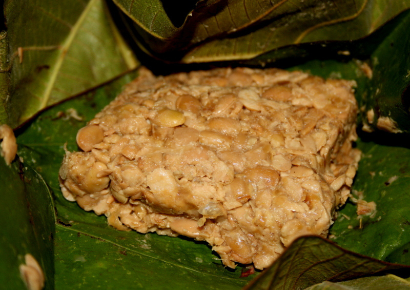 Kinema on original leaf wrapping